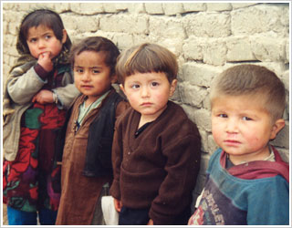 Georgian tribal children.